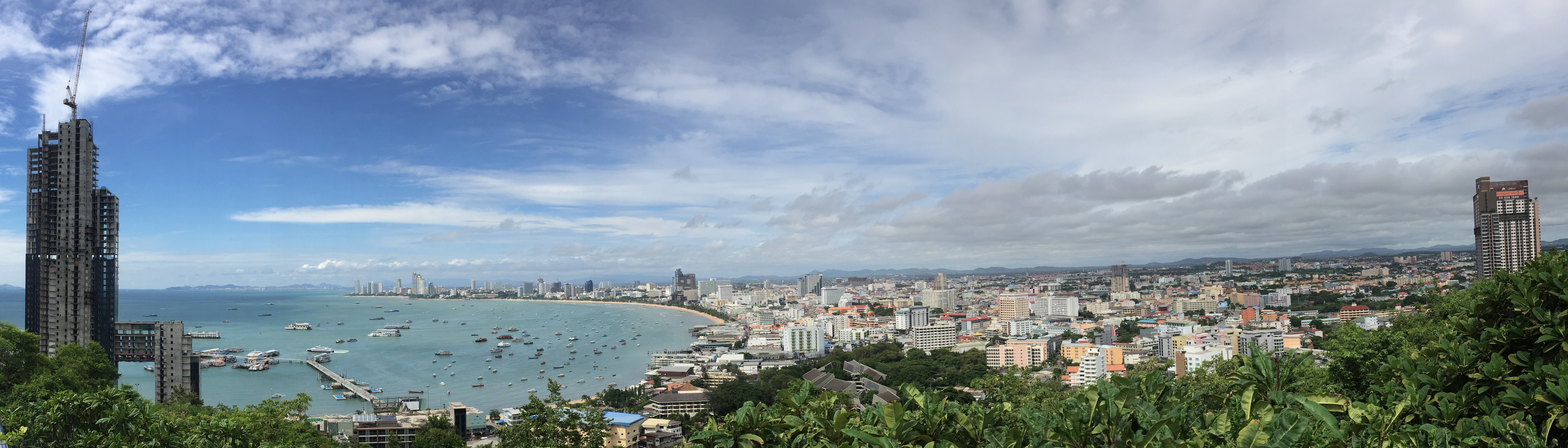 Panorama view of Pattaya beach